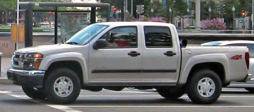 Isuzu i-Series photographed in USA.